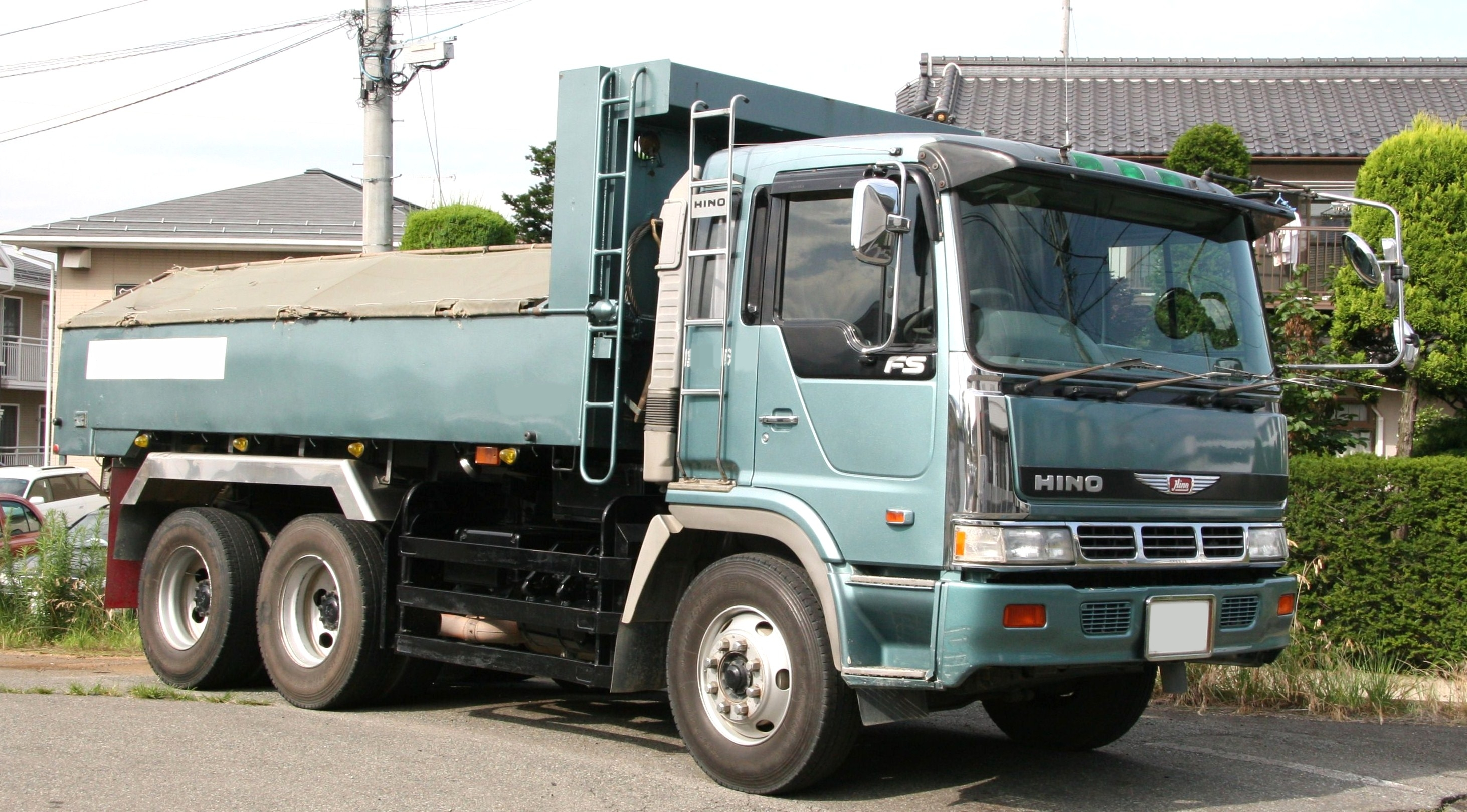 Hino Super Dolphin Profia